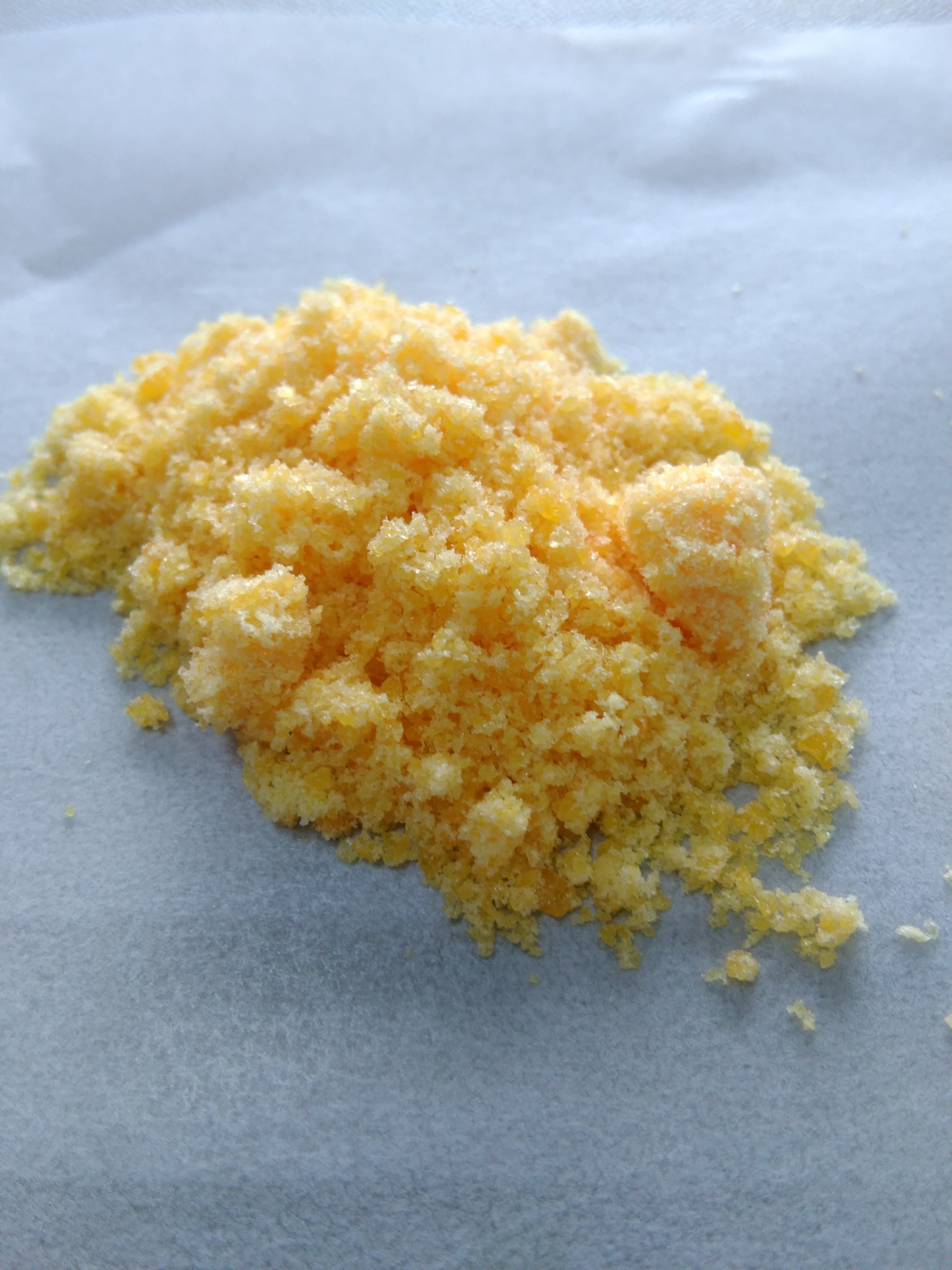 K2Ni(CN)4·xH2O